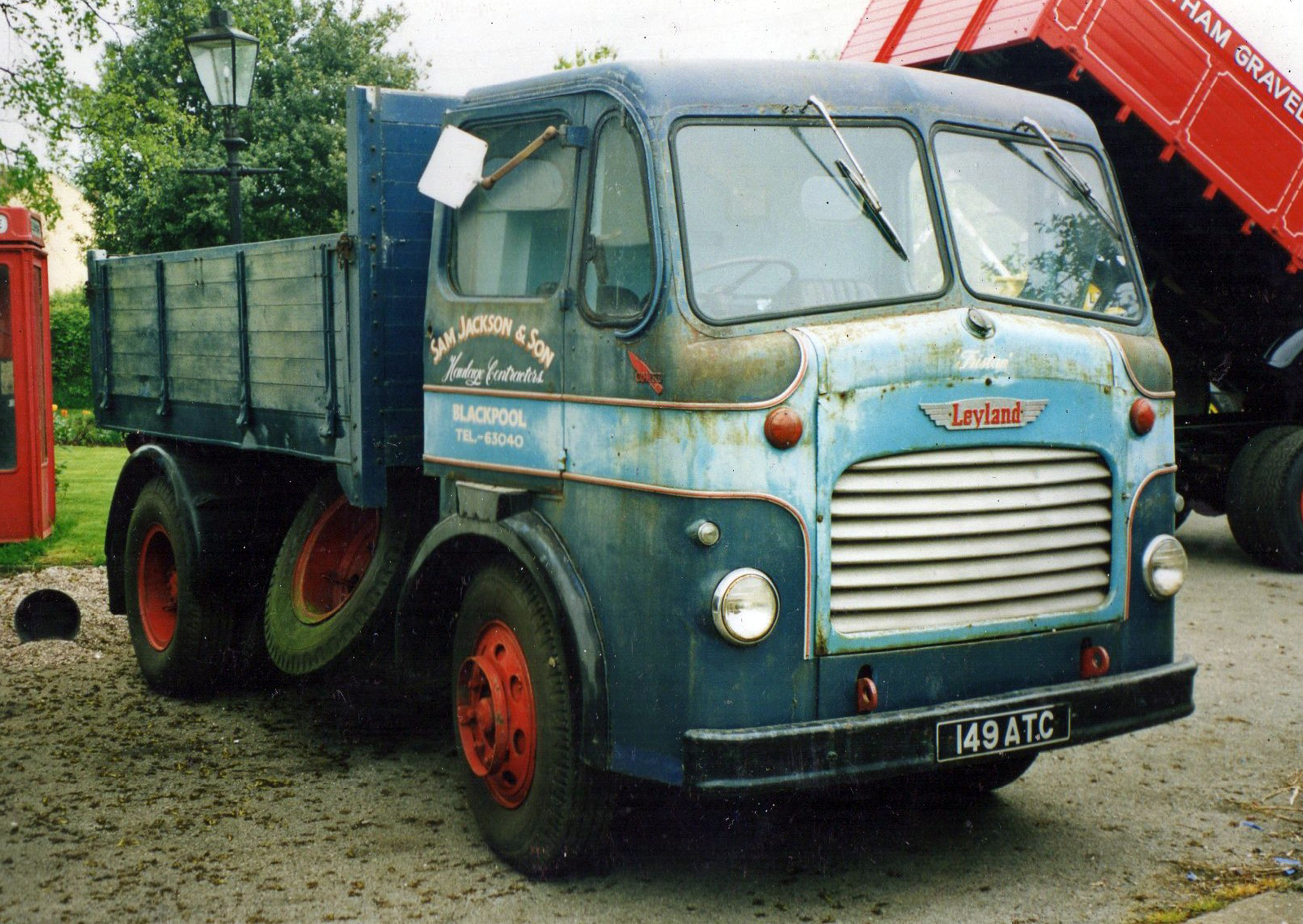 Leyland Comet tipper as bought before renovation. Nowadays it's red.